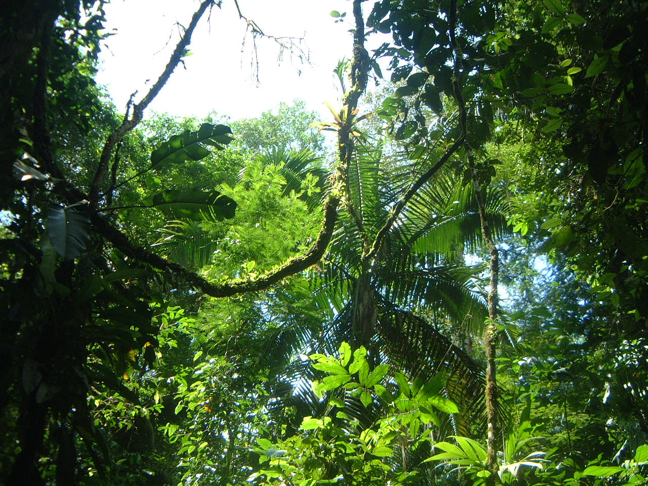 Tropical rain forest — La Selva Biological Station (Estación Biológica La Selva). Located in northeastern Costa Rica.